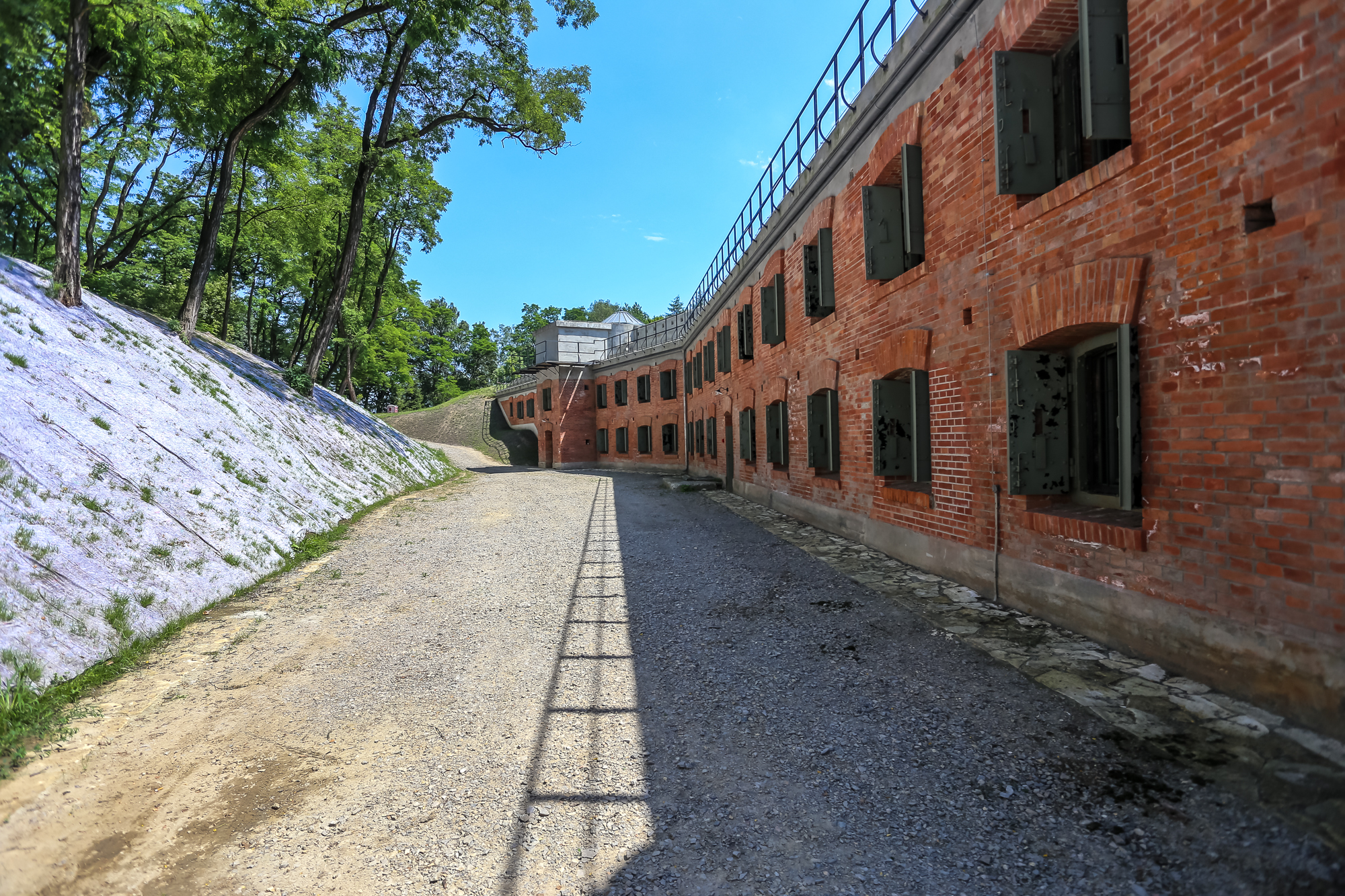 Fort Jugowice ("Łapianka") during modernization